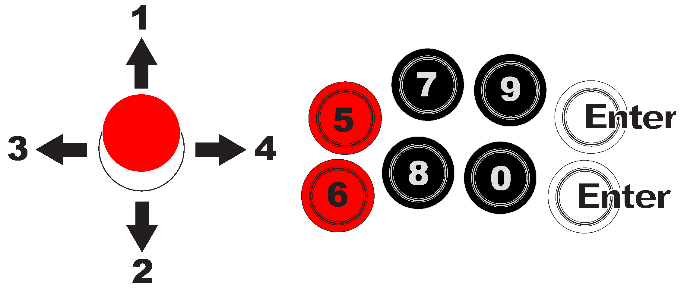 Button mappings used by the iCade Bluetooth arcade controller when pairing.